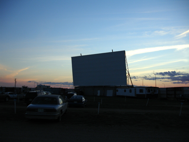 The screen of the Sundown Drive-In Theatre, Saskatoon's last drive-in movie theatre.